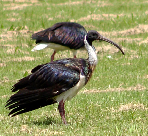 Straw Necked Ibis in the park across the road from the Royal Brisbane Hospital. This image is cropped from the original, as they wouldn't let me get very close